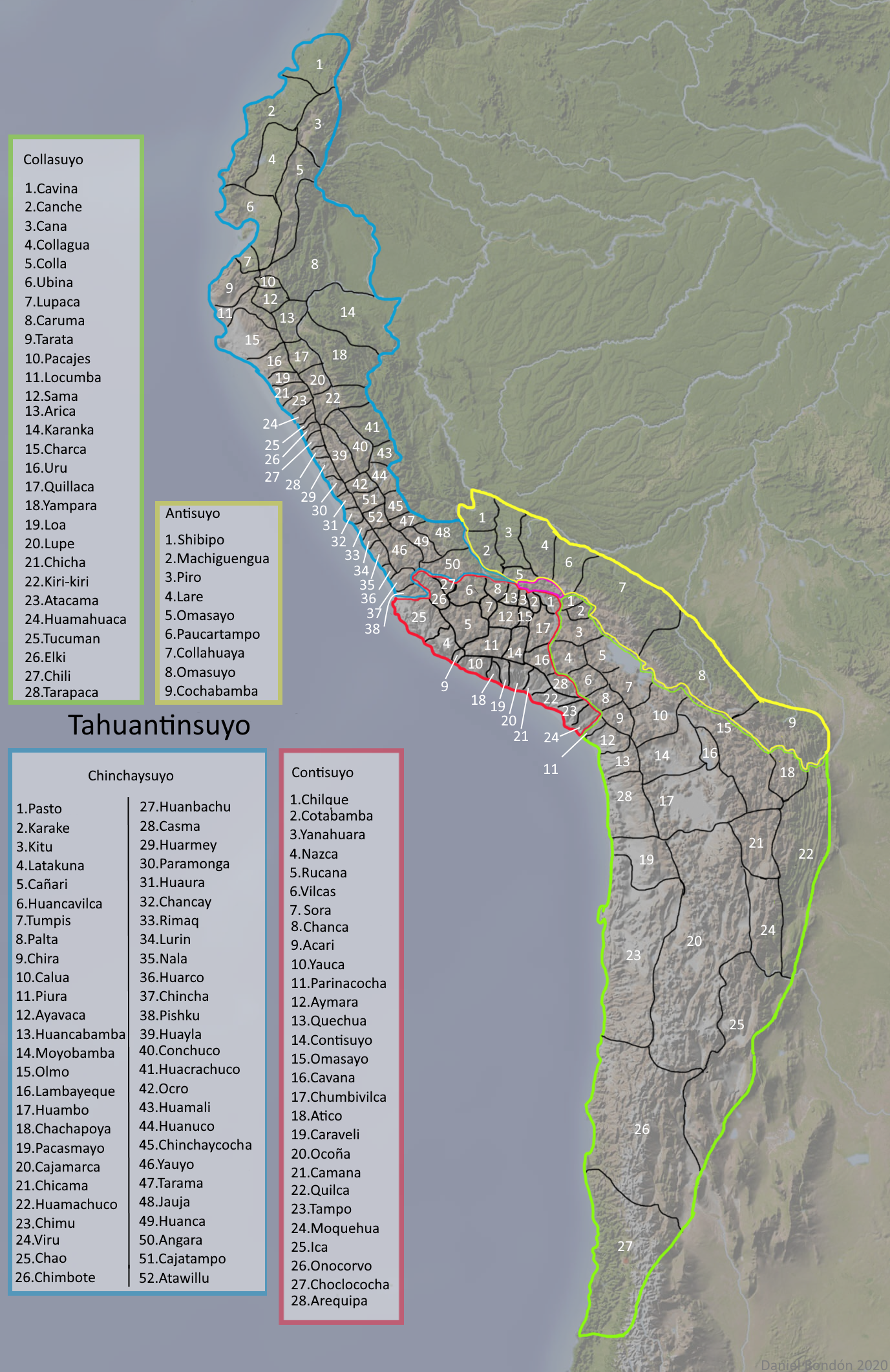 This map is an aproximation of how the wamnis of the Inca Empire could have look and it is made based on the maps of Julio Cesar Tello and John Rowe.